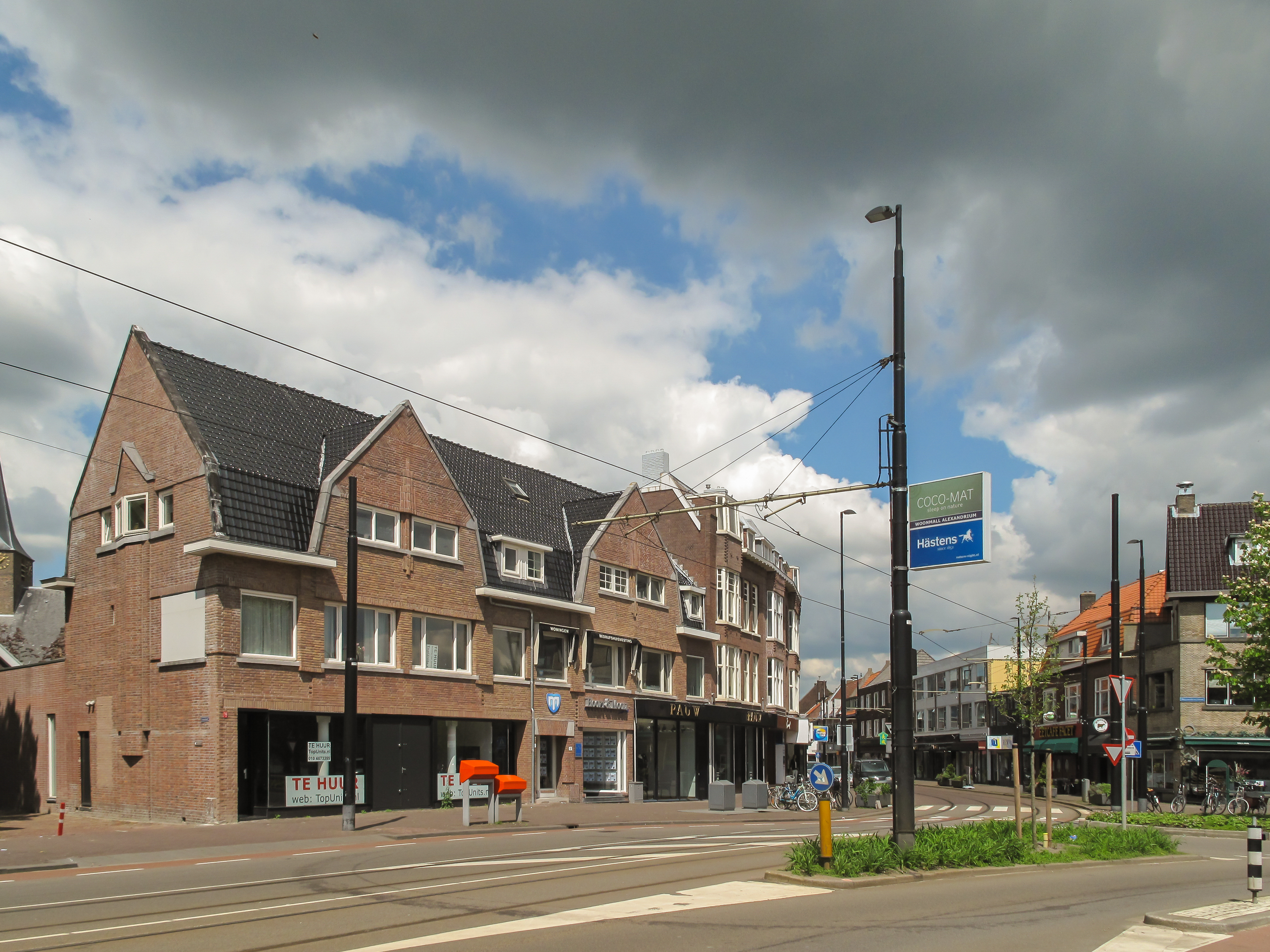 Rotterdam-Hillegersberg, view to a street: de Bergse Dorpsstraat